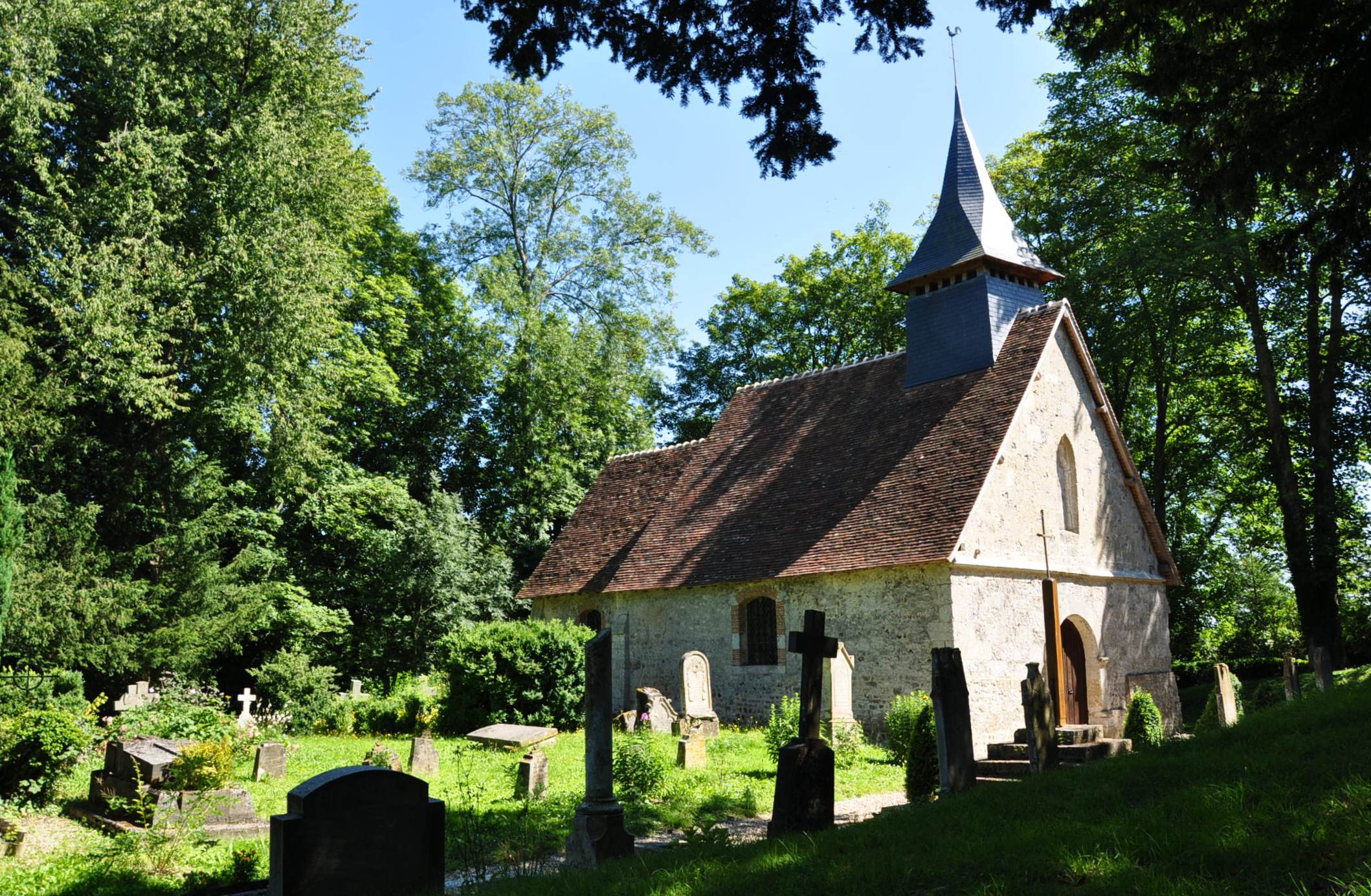 The church of Saint-Aubin of the former municipality (commune) of Saint-Aubin-sur-Auquainville (Calvados, Normandy, France). The church was decommissioned when Saint-Aubin-sur-Auquainville was incorporated into the commune of Auquainville in 1831 and was then used as a burial chapel by the Custine family. The choir with a flat apse indicates the building is from the late Middle Ages. It has a single nave and tower sitting on the western gable. The windows and door have without doubt been re-engineered in the 18th century. Inside, the building has retained all of its former layout. The entire church is listed as a Historic Monument.